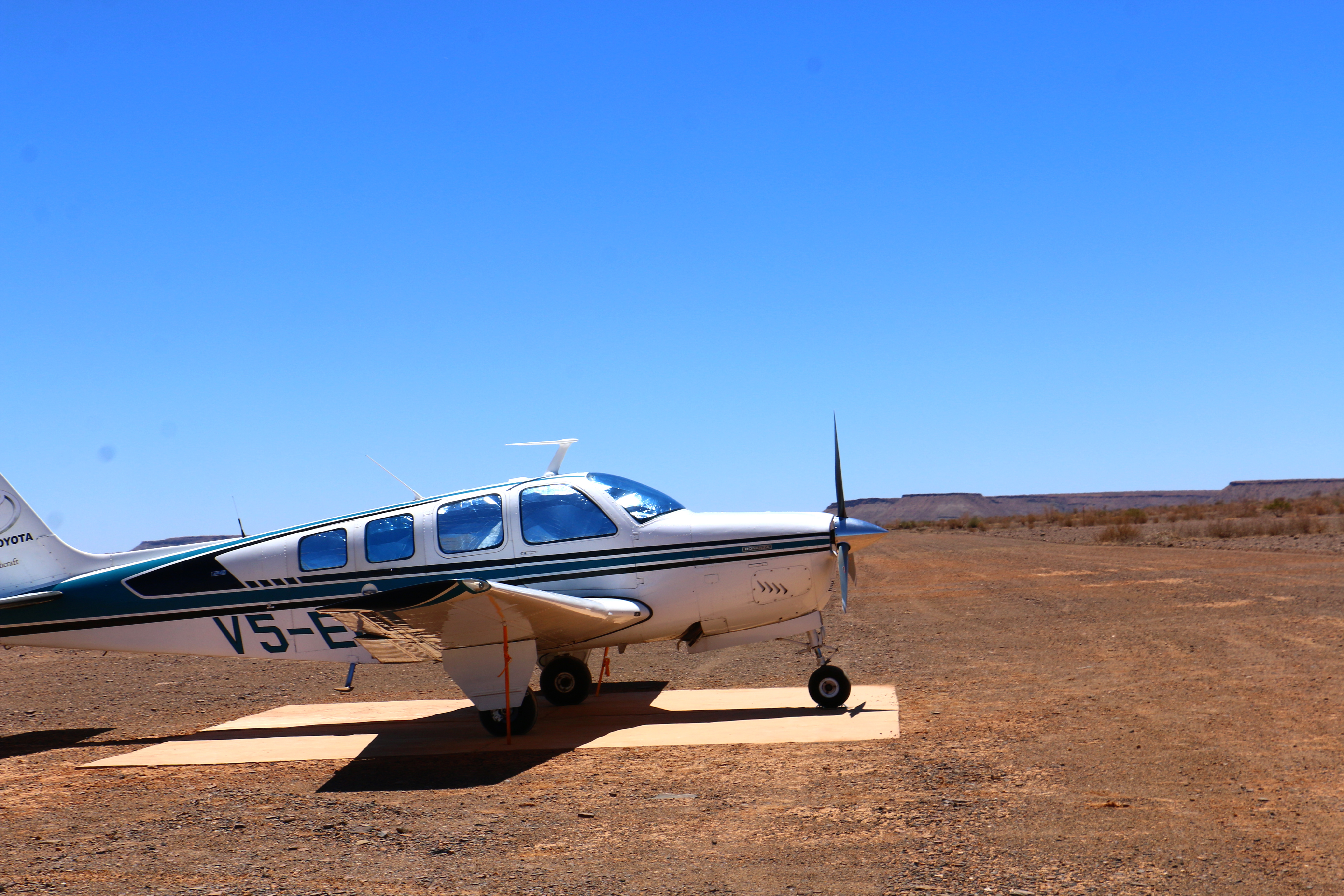 Airfield Simplon (2016)